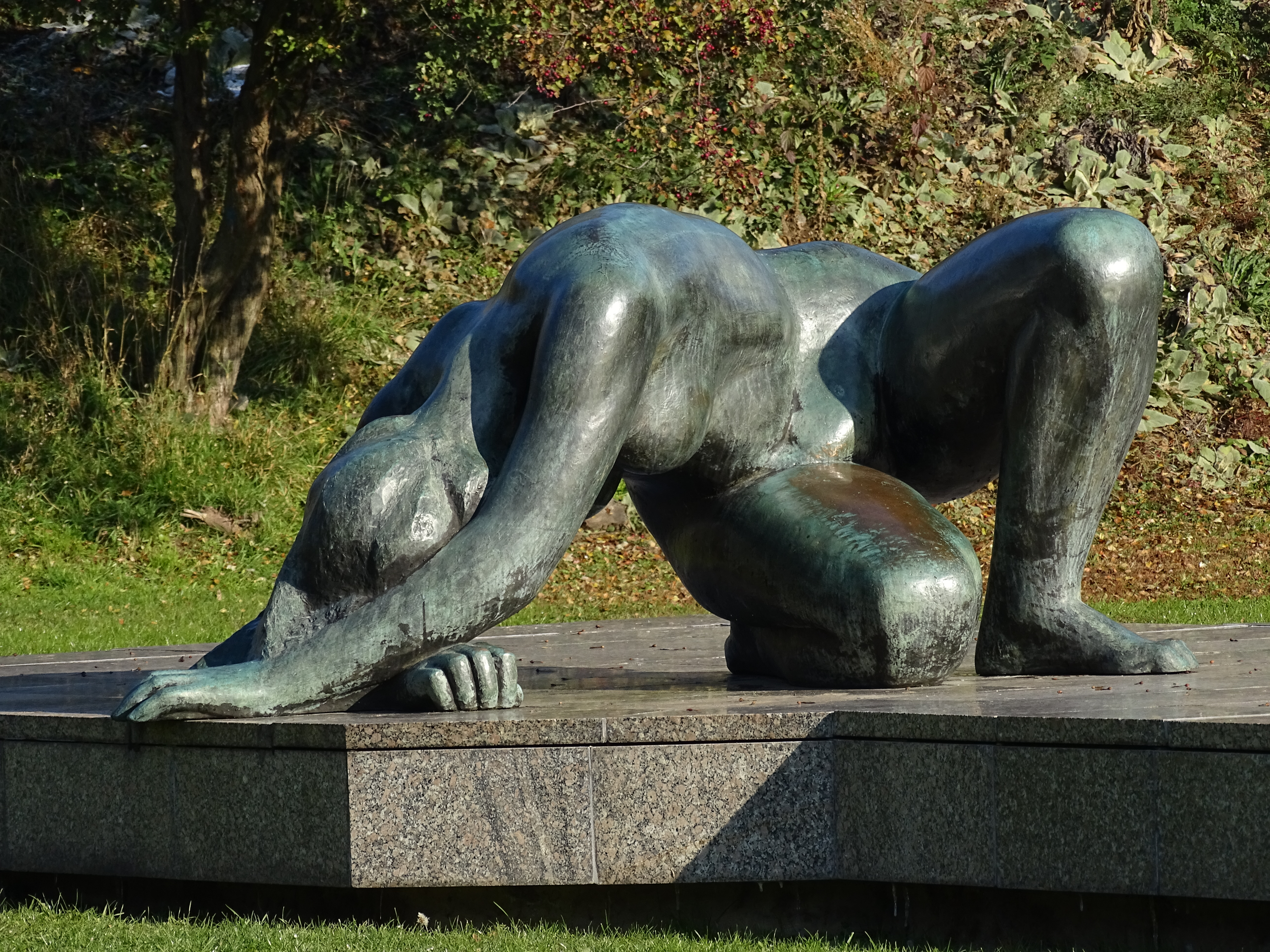 Prague-Kobylisy, Czechia. Kobylisy Shooting Range.